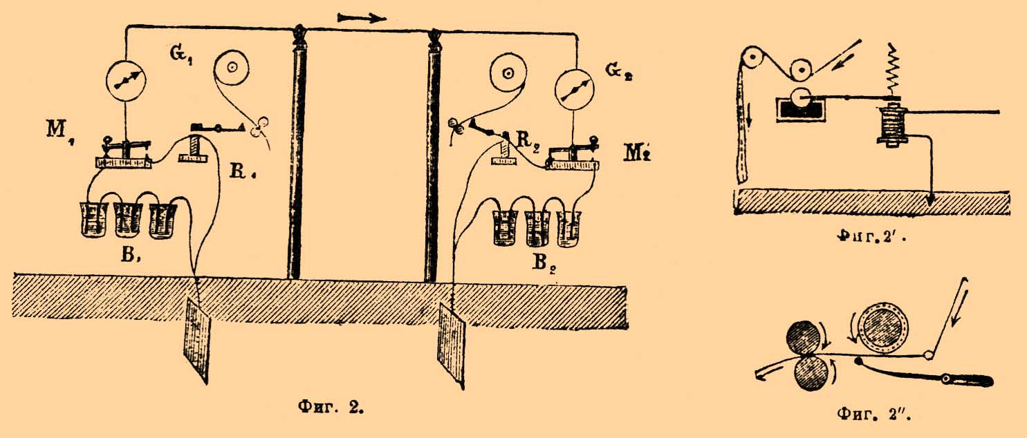 Illustration from Brockhaus and Efron Encyclopedic Dictionary(1890—1907)